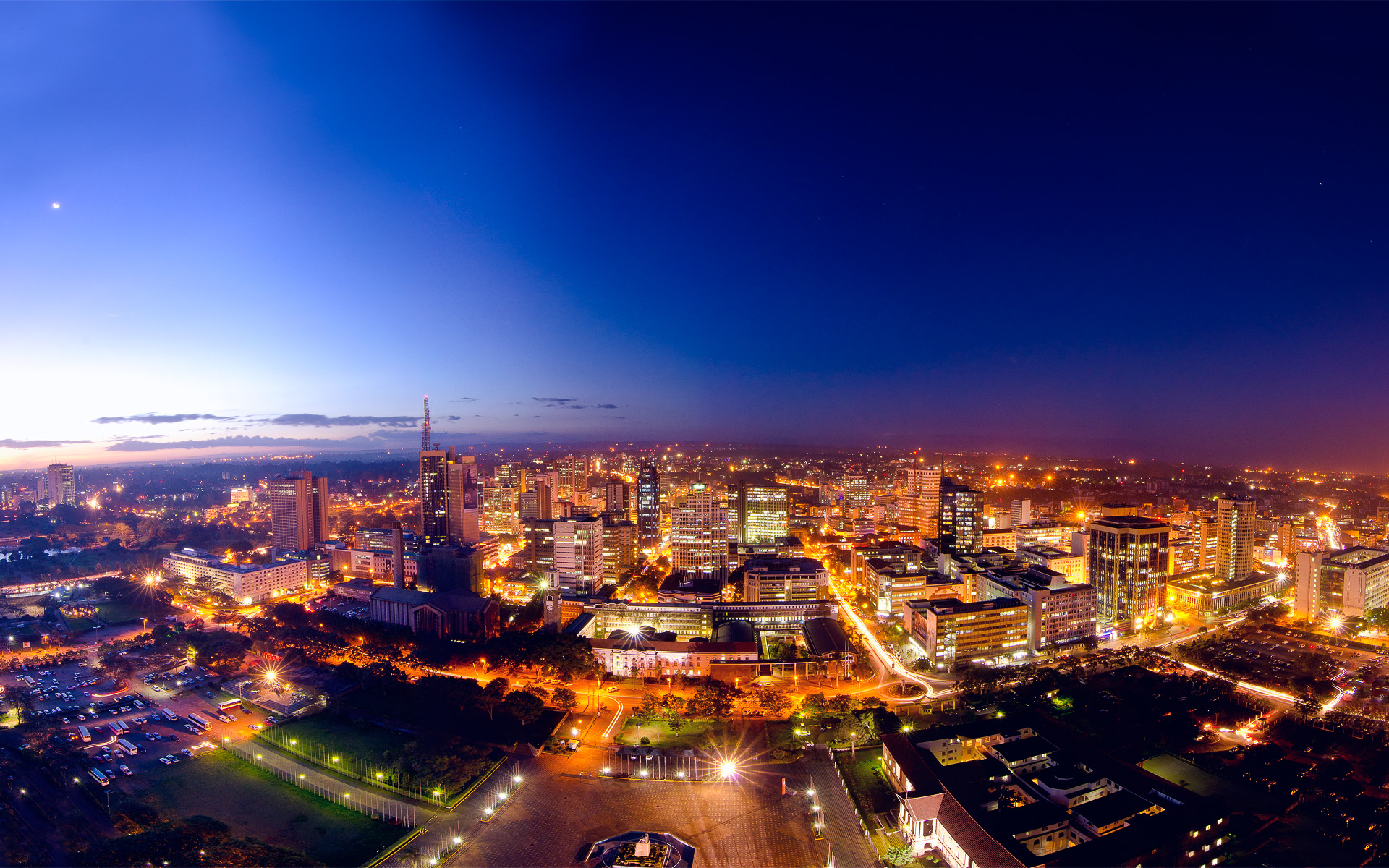 this shows the main economic center of the city of Nairobi.